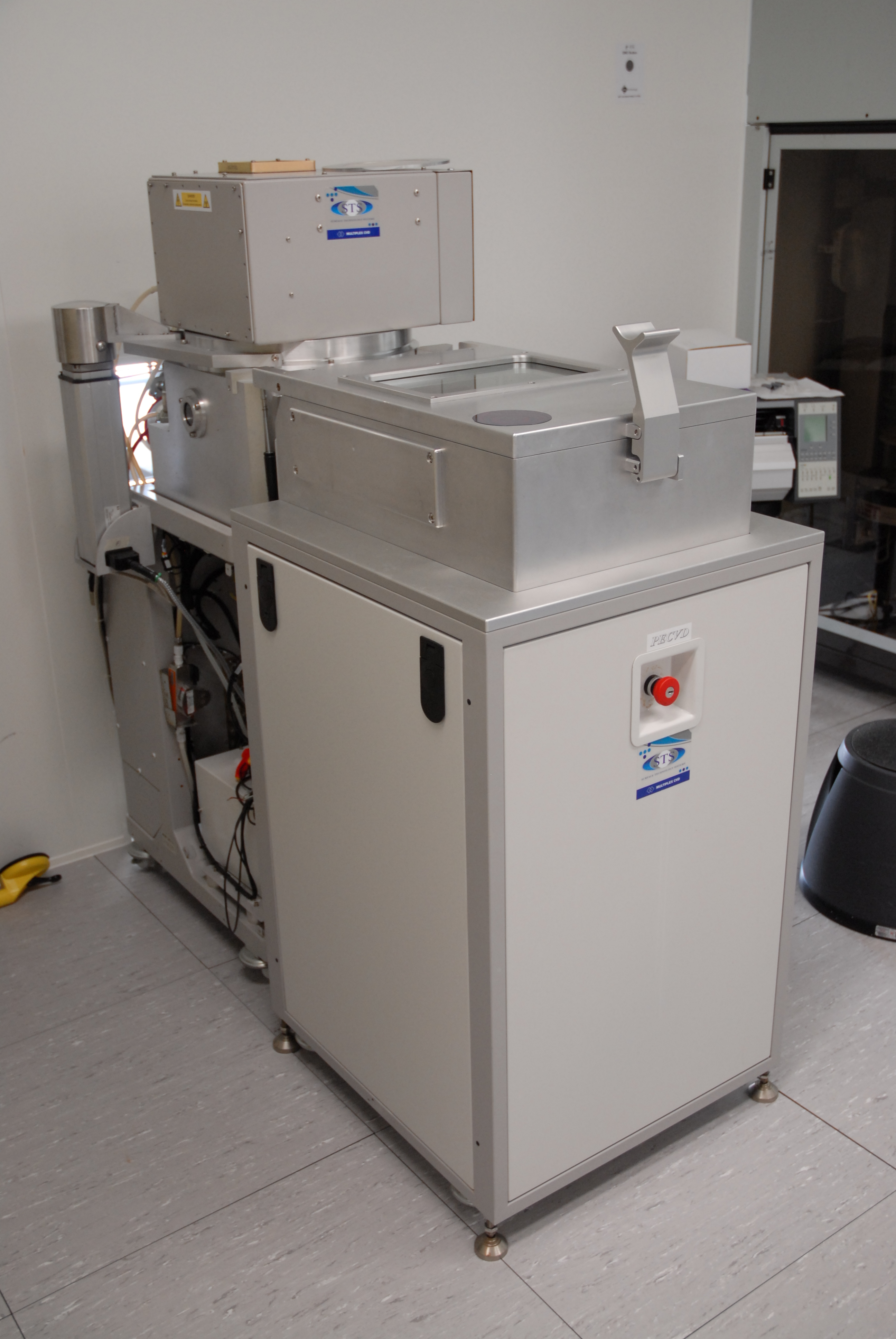 STS Multiplex Plasma-enhanced chemical vapor deposition (PECVD) machine at LAAS technological facility in Toulouse, France.